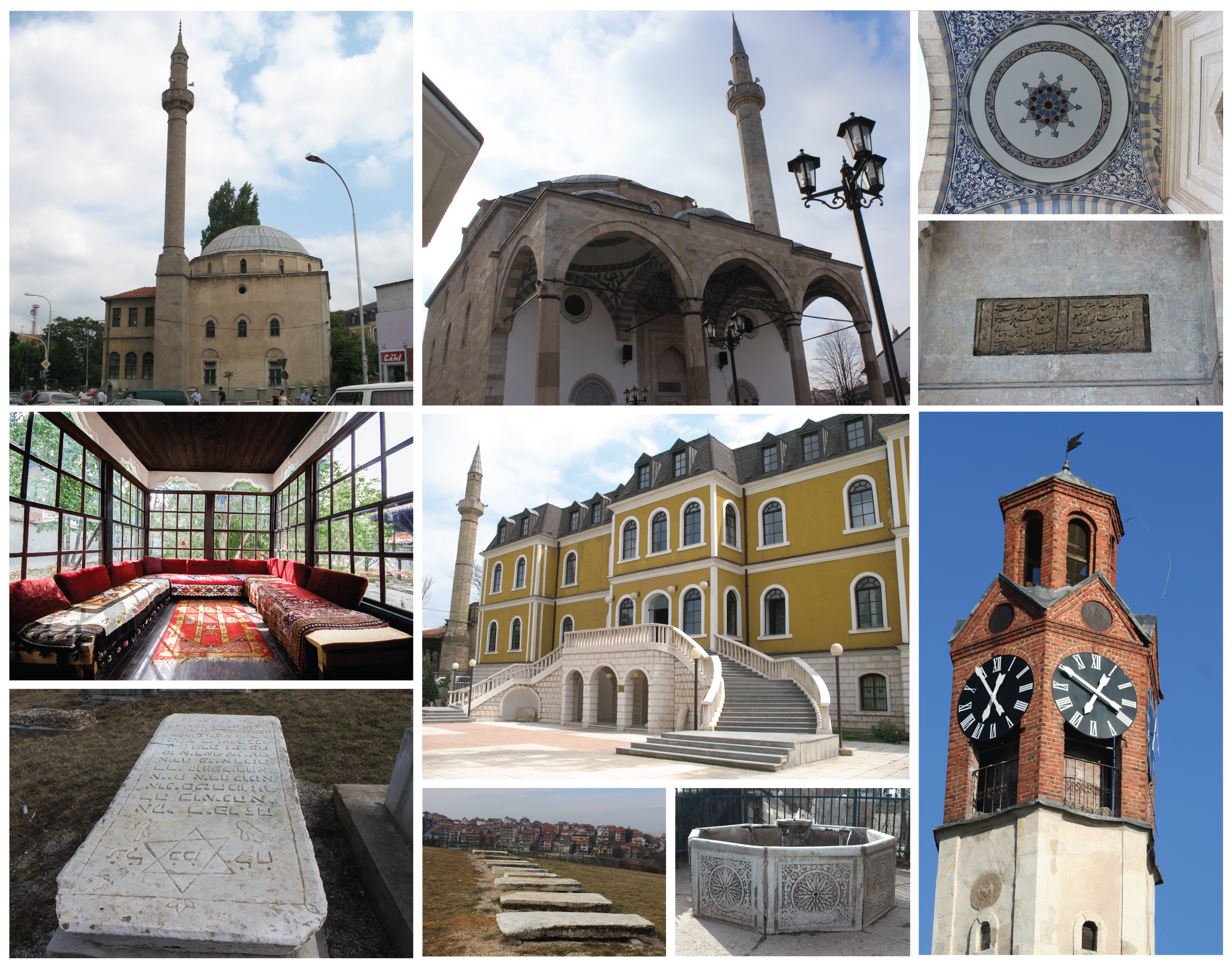 Montage of historical Monuments in Prishtina, Kosovo